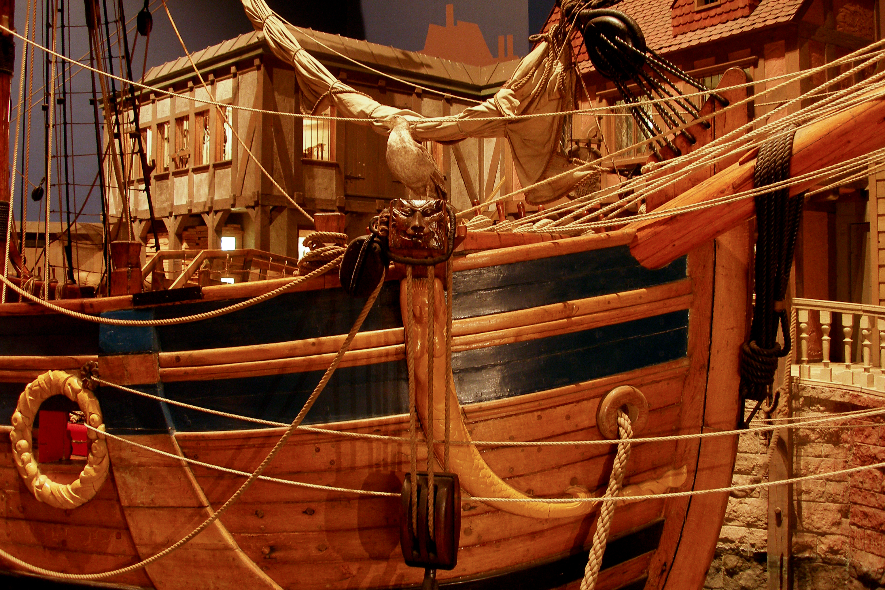 The Nonsuch (1650 ship) on display at the Manitoba Museum, in Winnipeg, Manitoba, Canada.